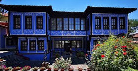 North Facade